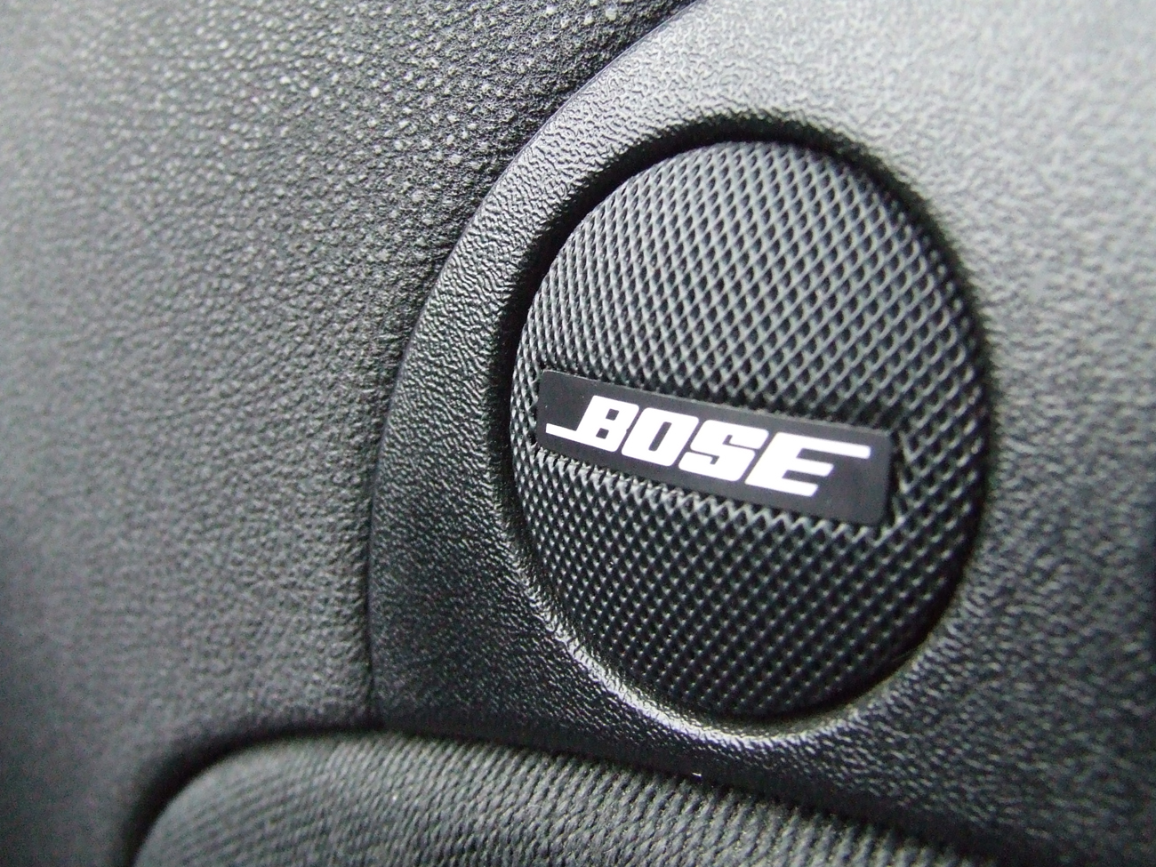 Bose Car-Hifi